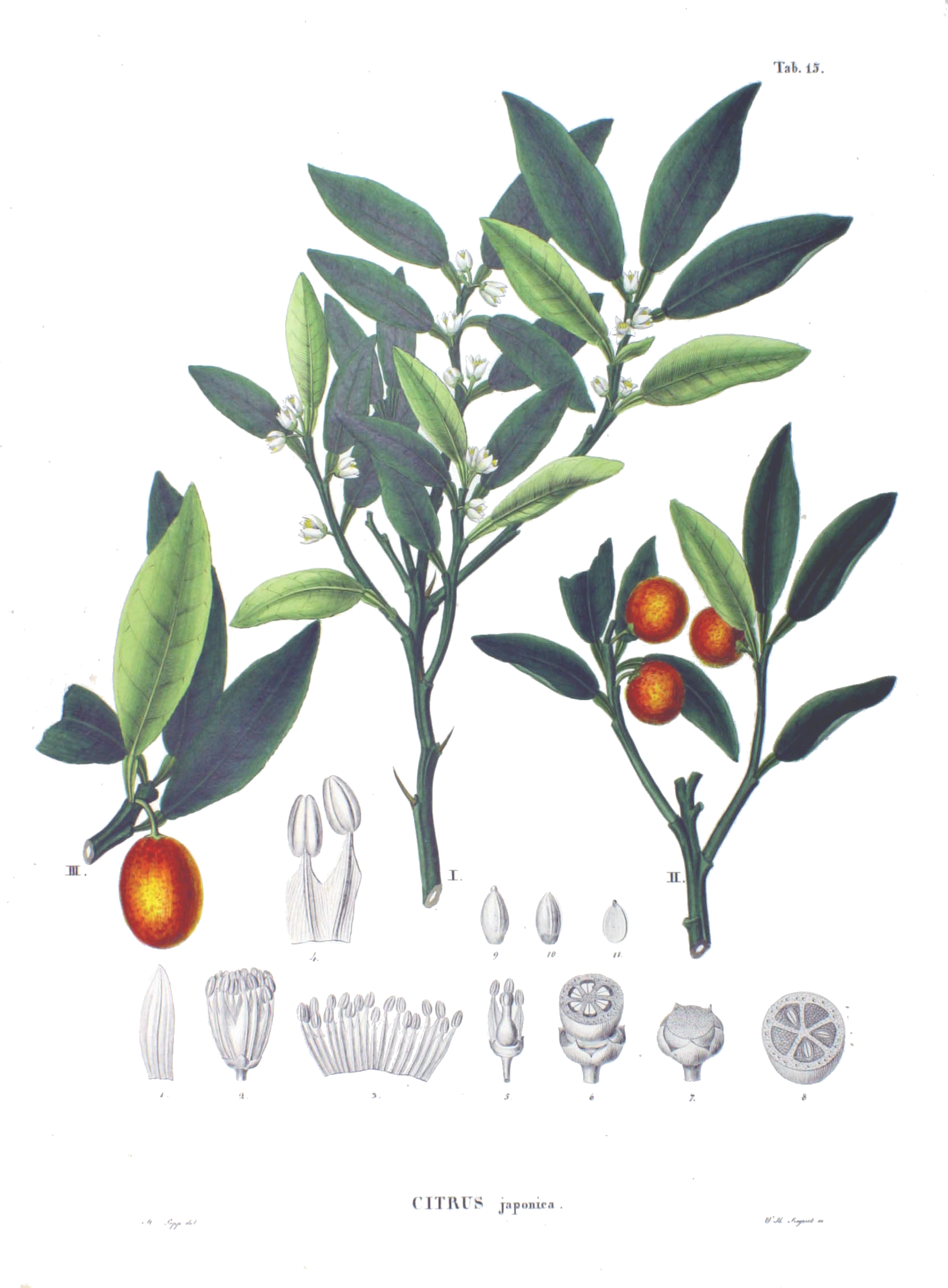 The Kumquat, Fortunella japonica, syn: Citrus japonica.